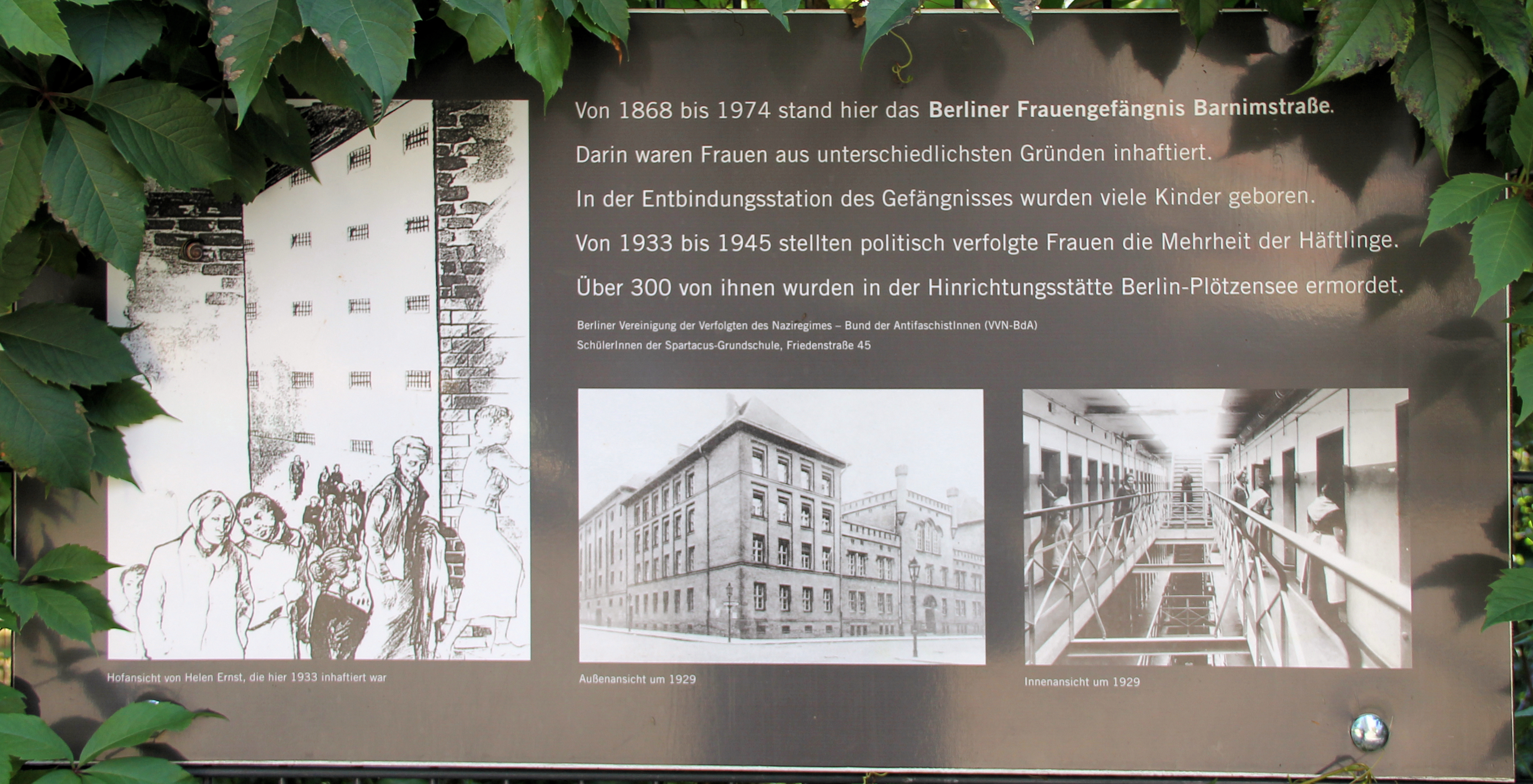 Memorial plaque, Frauengefängnis Barnimstraße, Barnimstraße 10, Berlin-Friedrichshain, Germany Koordinate:52°31′29″N 13°25′31″E / 52.52472°N 13.42528°E